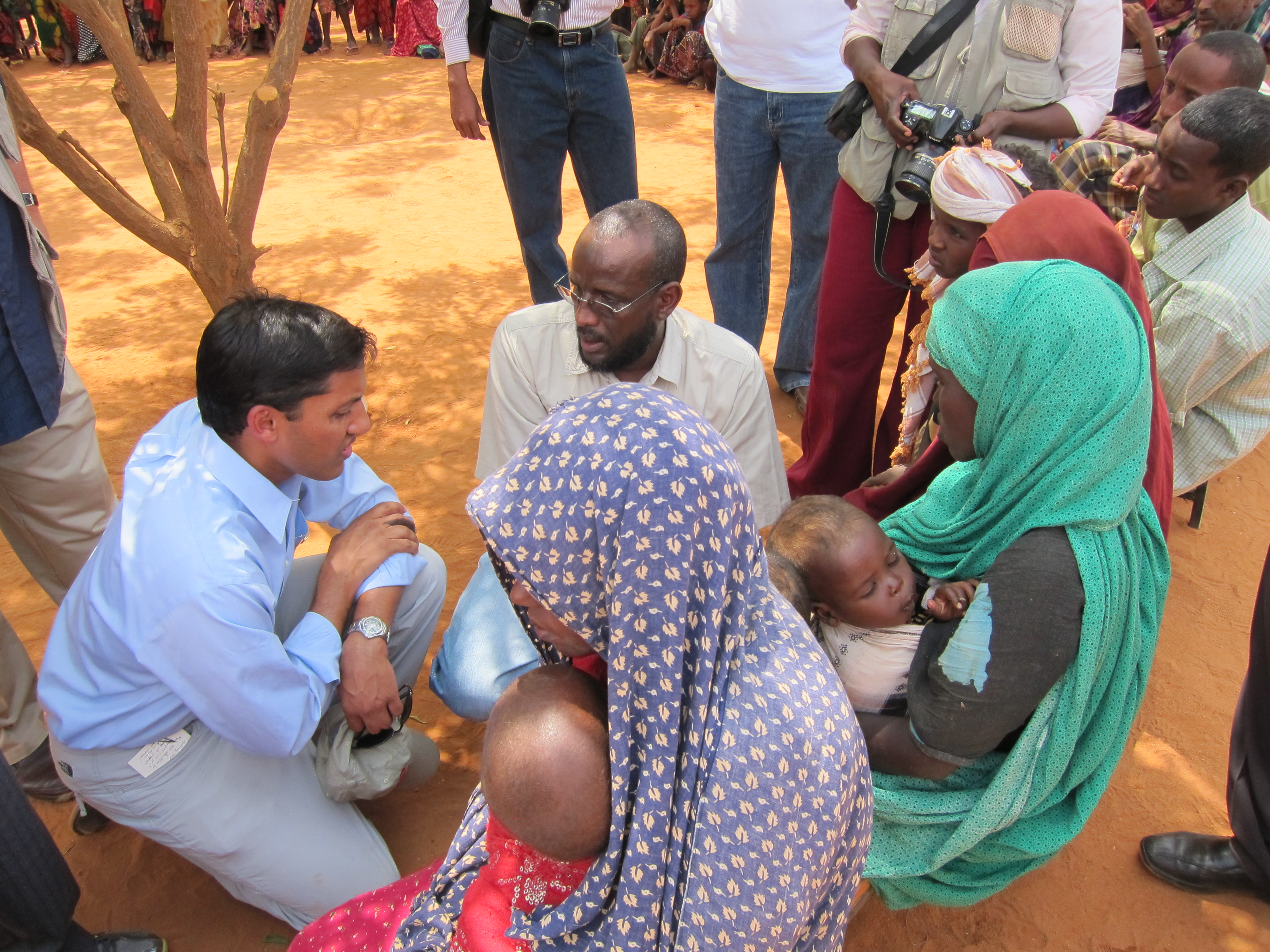 USAID Administrator Rajiv Shah listens to the story of a young Somali woman who walked for 33 days with her children to reach Dadaab camp in Kenya. (L. Meserve/USAID)